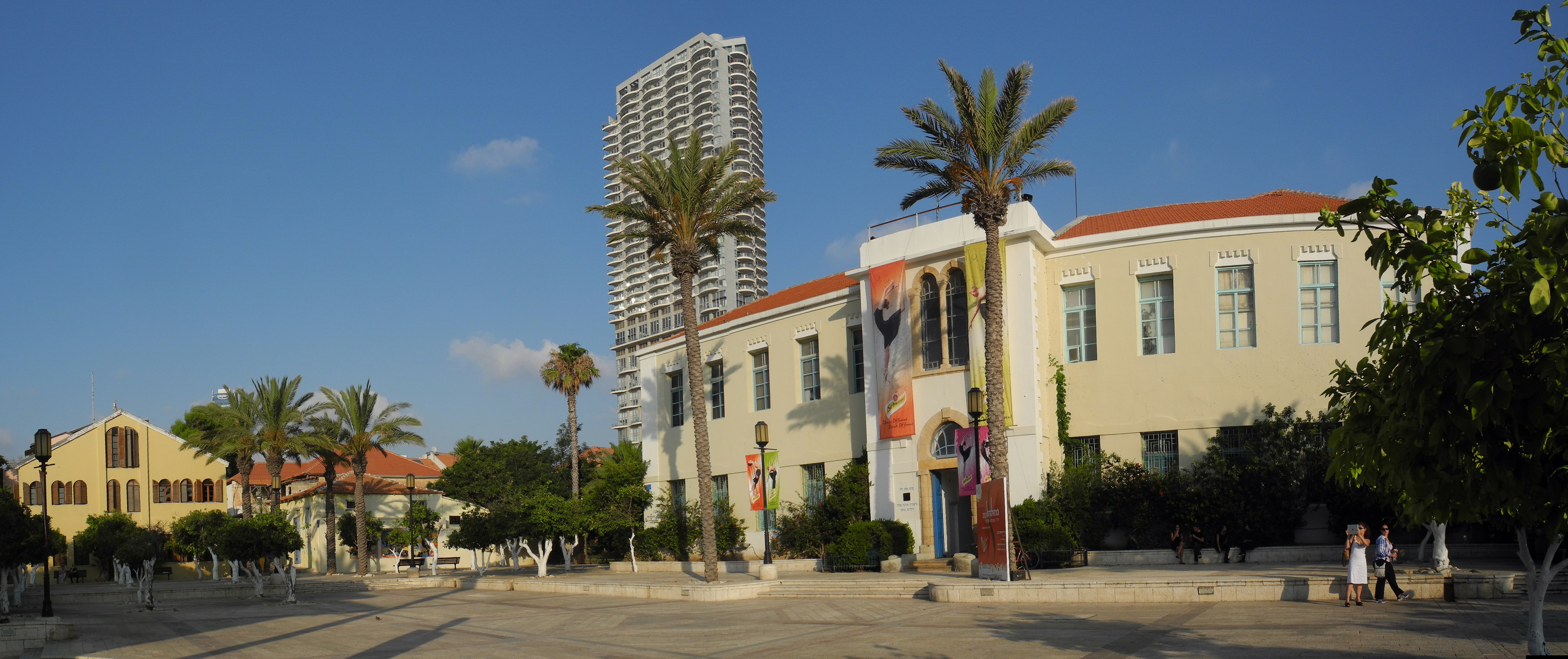 Suzanne Dellal Centre in Neve Tzedek, Tel Aviv, Israel